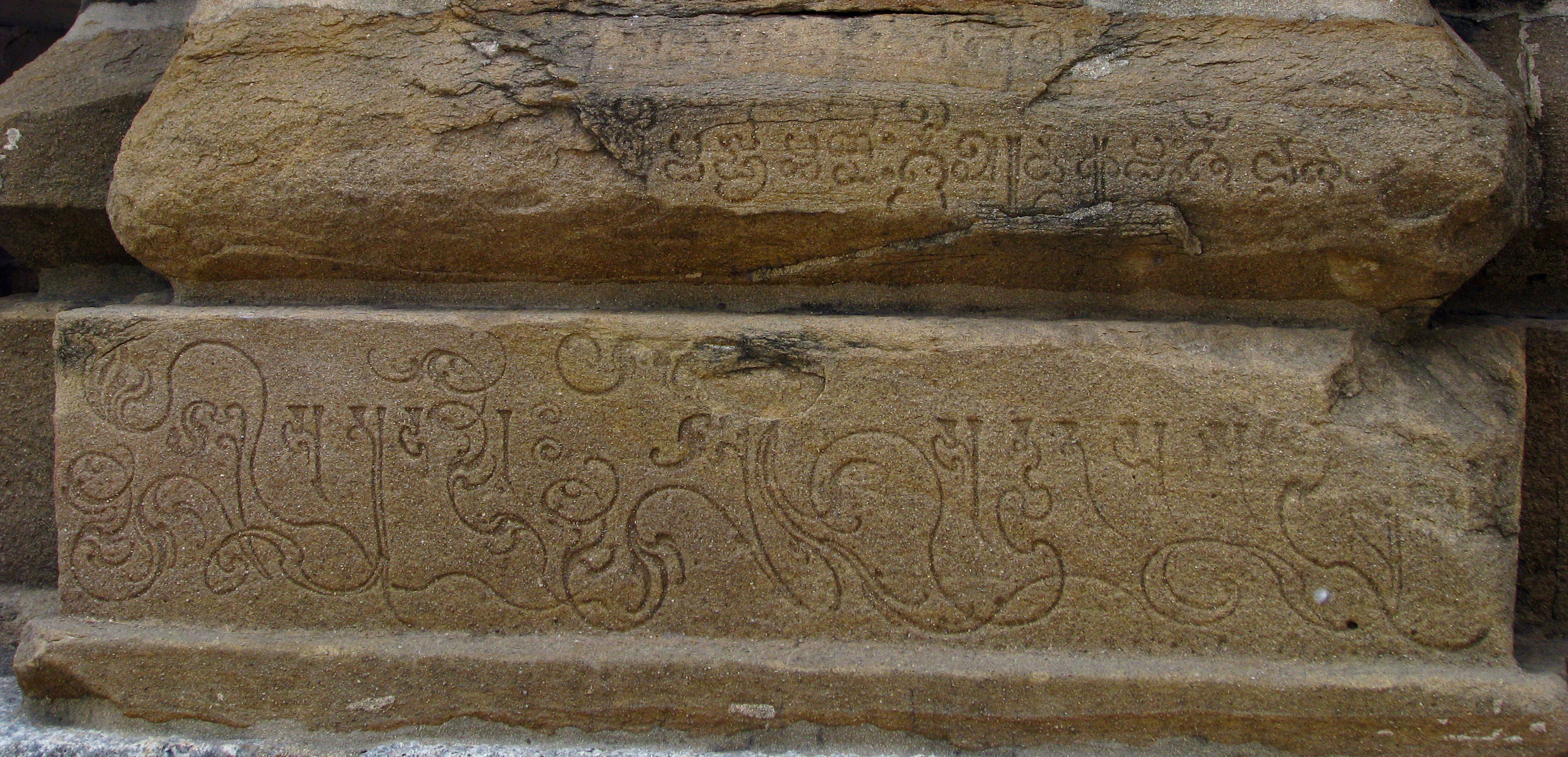 Pallava script. Beautiful and well-preserved ancient Tamil script at the 8th century Kailasanatha temple in Kanchipuram. (Interestingly, the older script shares much more similarity to Hindi than the modern scripts have evolved).